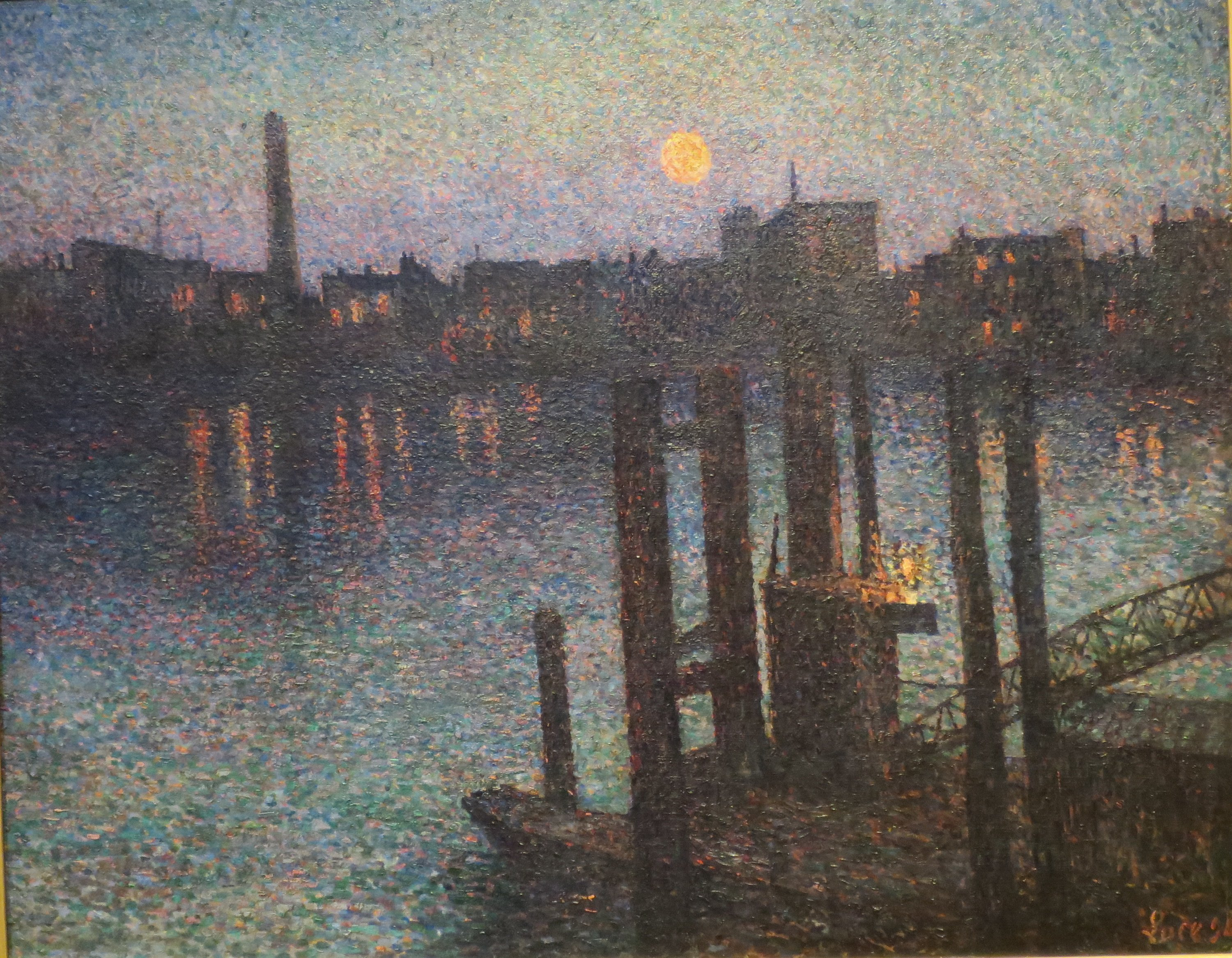 Port of London, Night by Maximilien Luce, oil on canvas, 1894, High Museum of Art